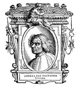 Illustratio from "Le Vite" by Giorgio Vasari, edition of 1568. For the artist portrayed see filename